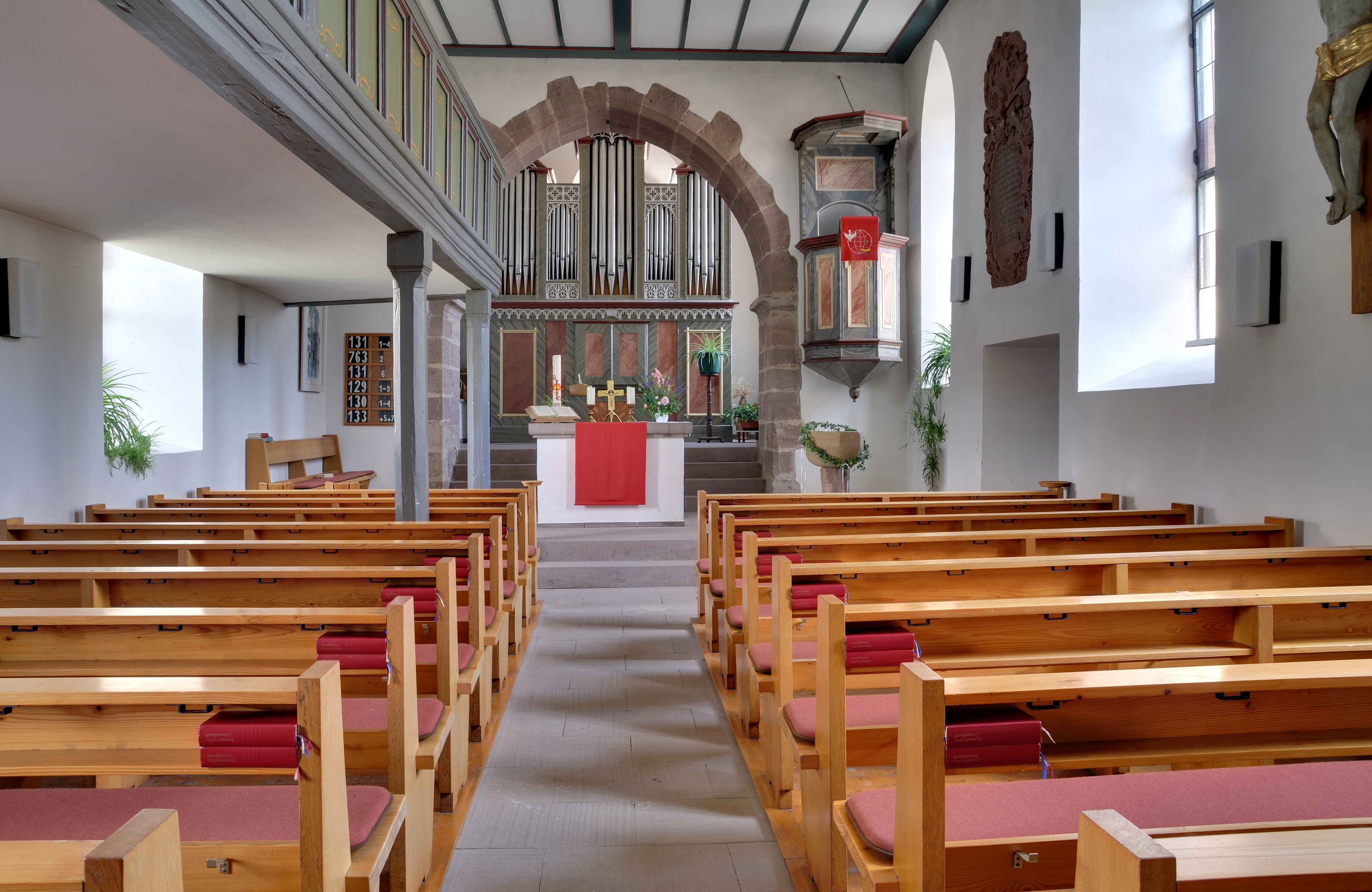 Obereggenen: Protestant Church